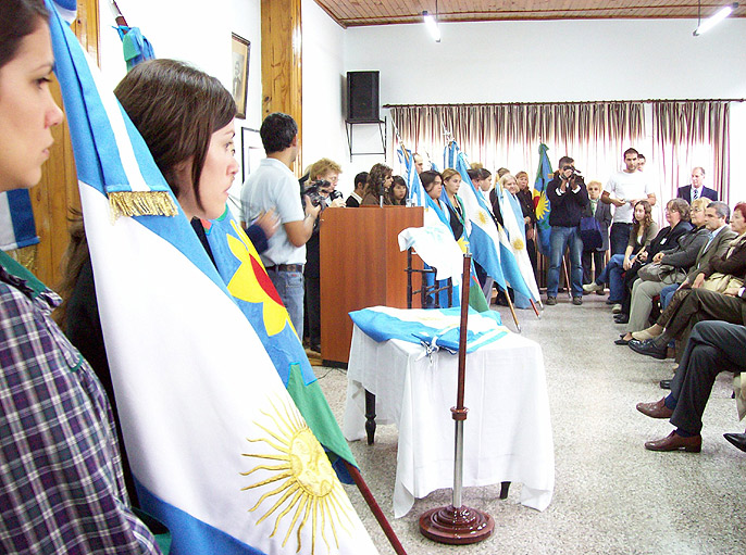 Front view of the auditorium at the Library "Rafael de Aguiar" during the ceremony of its 60th anniversary. San Nicolás de los Arroyos, Buenos Aires, Argentina.